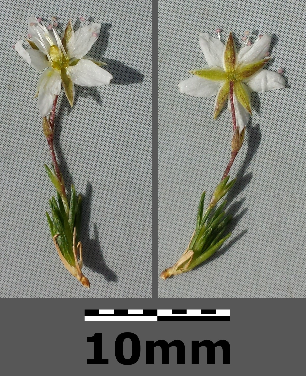 Habitus Taxonym: Minuartia gerardii ss Fischer et al. EfÖLS 2008 ISBN 978-3-85474-187-9 (det. Josef Greimler 2015-09-12) Location: Rax/Jakobskogel, district Neunkirchen, Lower Austria - ca. 1736 m a.s.l. Habitat: lime stone rocks